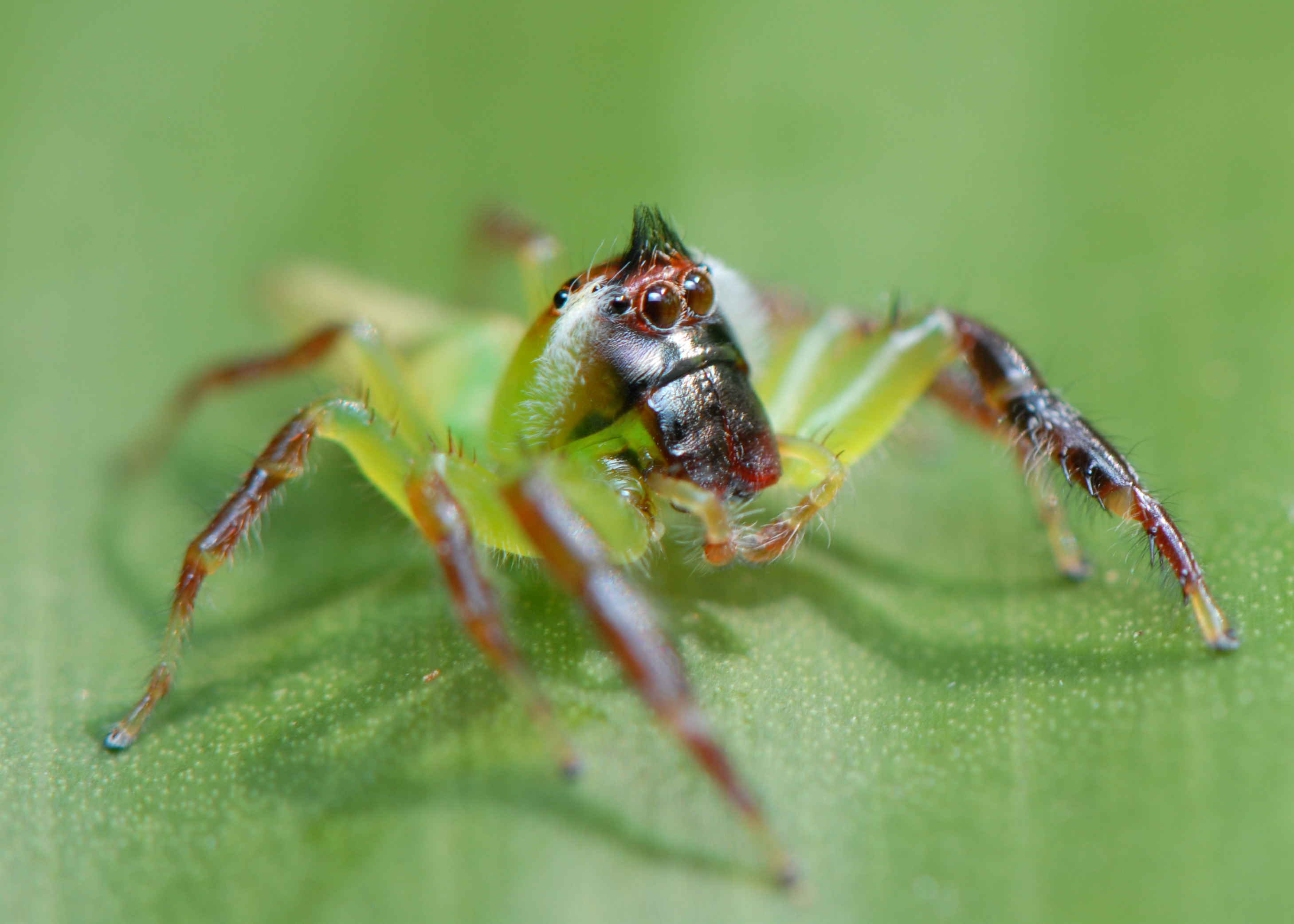 Mopsus mormon (male) QLD: 27°27'S x 153°01' E elev 32 m Roma Street Parkland Queensland, Australia 02 April 2010 Sam Fraser-Smith ex unidentified agave (leaf)